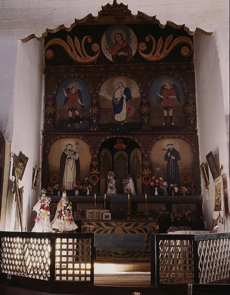 The main altar in the church, Trampas, N.M. There are paintings on the wall behind the altar. 1 transparency : color. Notes: Title from FSA or OWI agency caption. Transfer from U.S. Office of War Information, 1944.